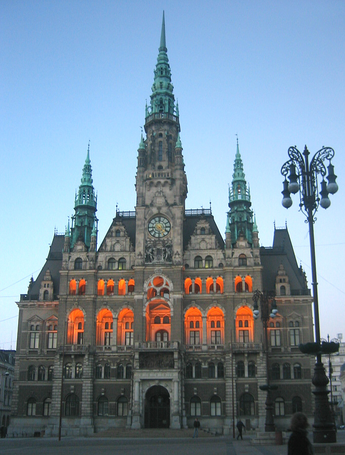 Liberec, Czech Republic: Town Hall